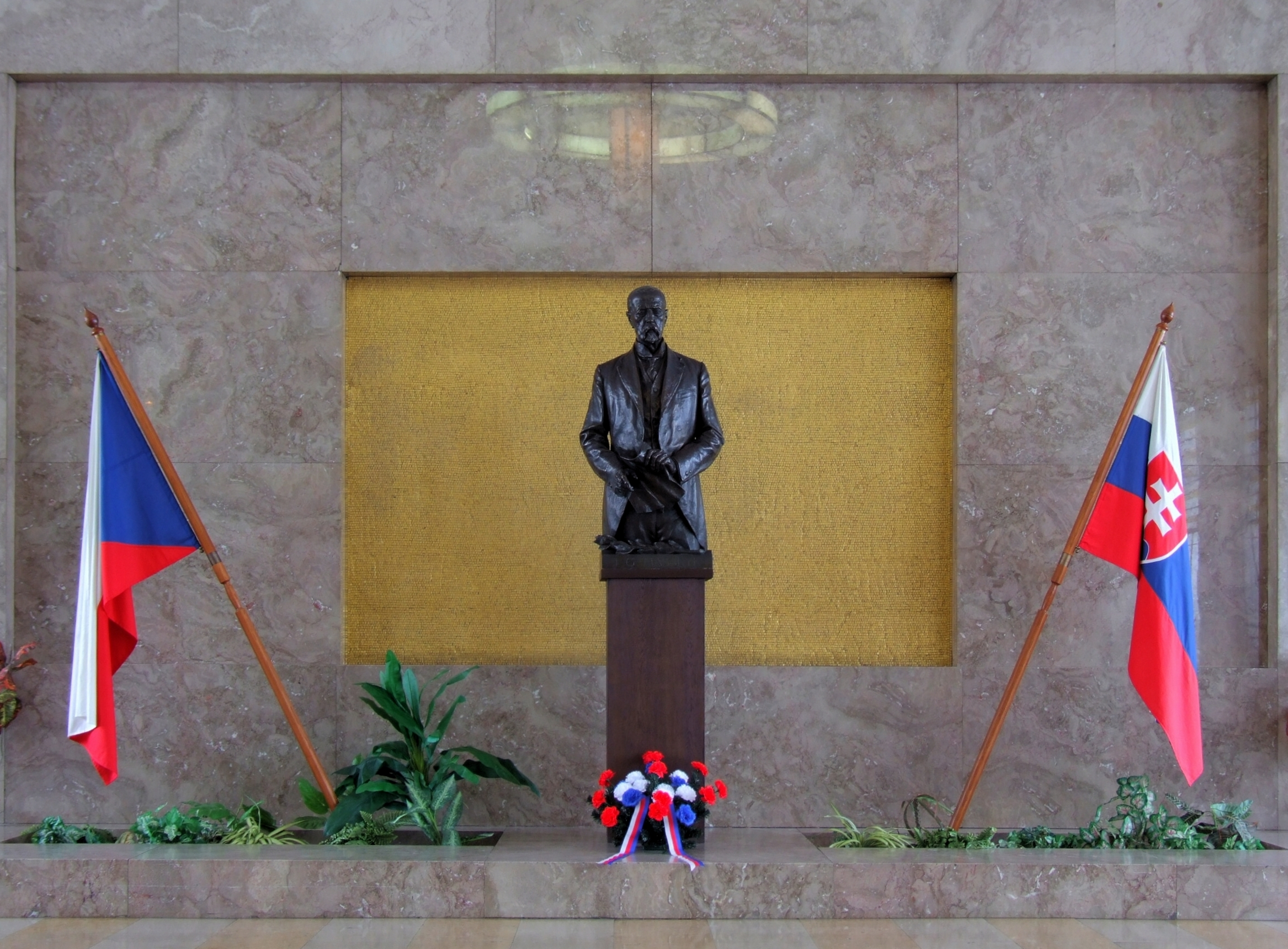 Tomáš Masaryk statue in Army Museum Žižkov